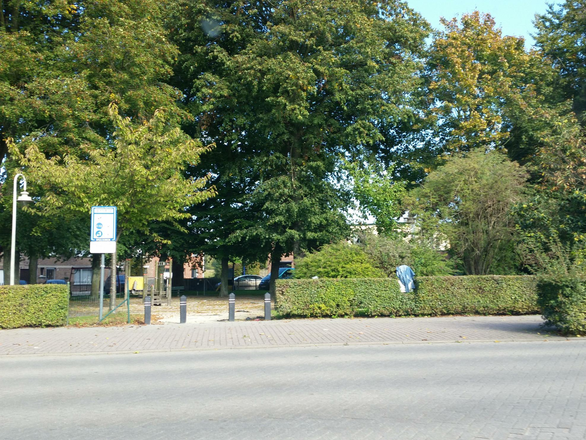 Entrance to the Sint-Rita Park in Kontich.